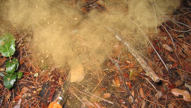 Spores of the fungus Lycoperdon perlatum.